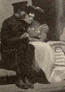 Still from the American romantic comedy drama film Fair Enough (1918) with Margarita Fischer, on page 37 of the October 19, 1918 Exhibitors Herald.